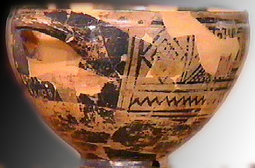 Author: Filippo Di Iorio The so-called Nestor's Cupe from Pithikoussai: a drinking cup (Skyphos/Kotyle) that was found in 1954 in a grave in the ancient Greek site of Pithikoussai on the island of Ischia in Italy (the earliest Greek colony in the West). Dated to the Geometric Period (c. 750-700 BCE), it's believed to have been originally manufactured in Rhodes. It is now kept in the Villa Arbusto museum in the village of Lacco Ameno on the island of Ischia. It bear one of the oldest known Greek alphabet inscription, the oldest being found in Gabii (near Rome)